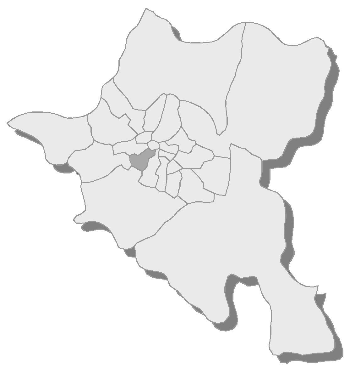 Sofia, municipality Krasno selo